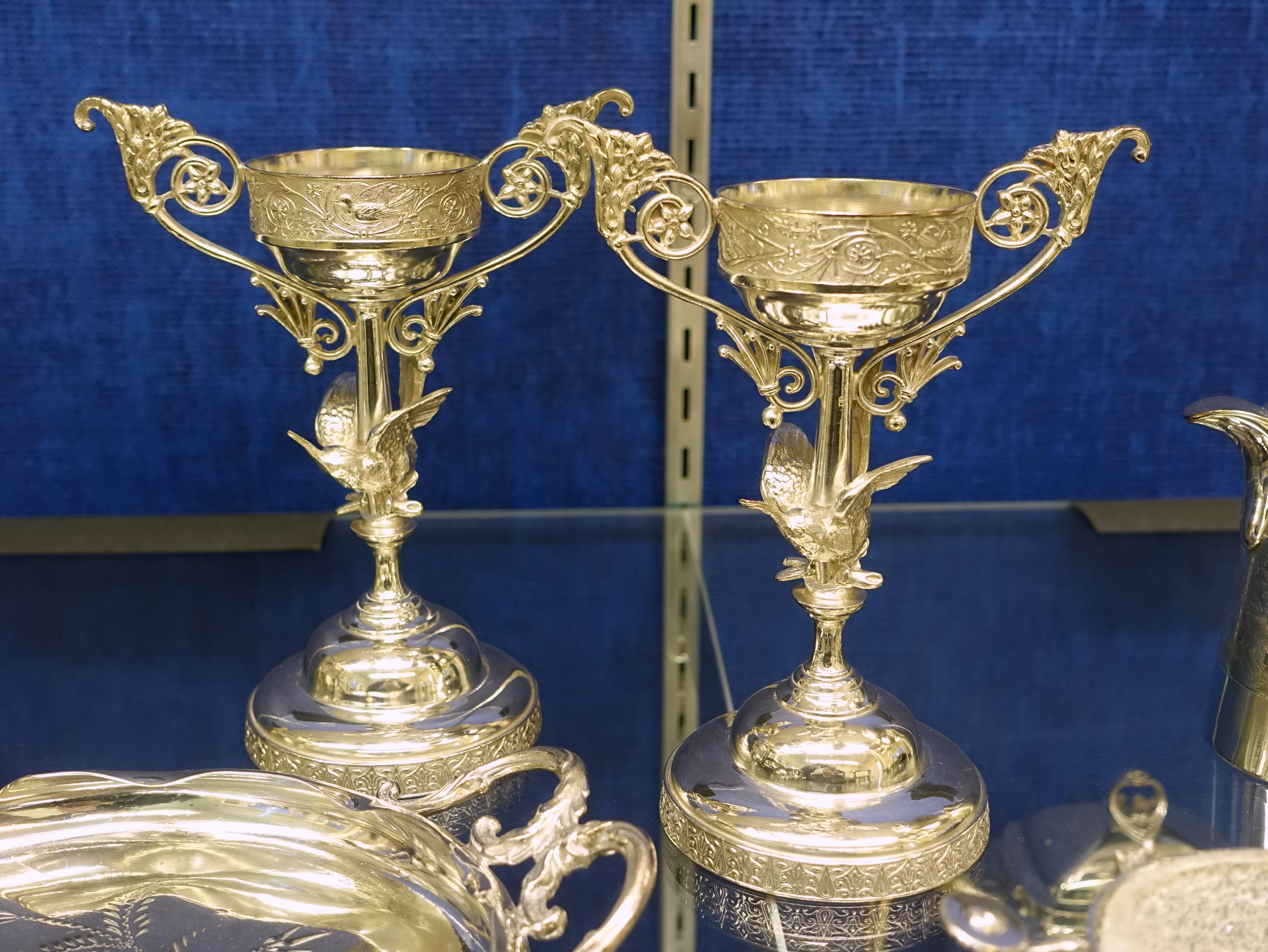 Exhibit in the Old Colony History Museum - Taunton, Massachusetts, USA.